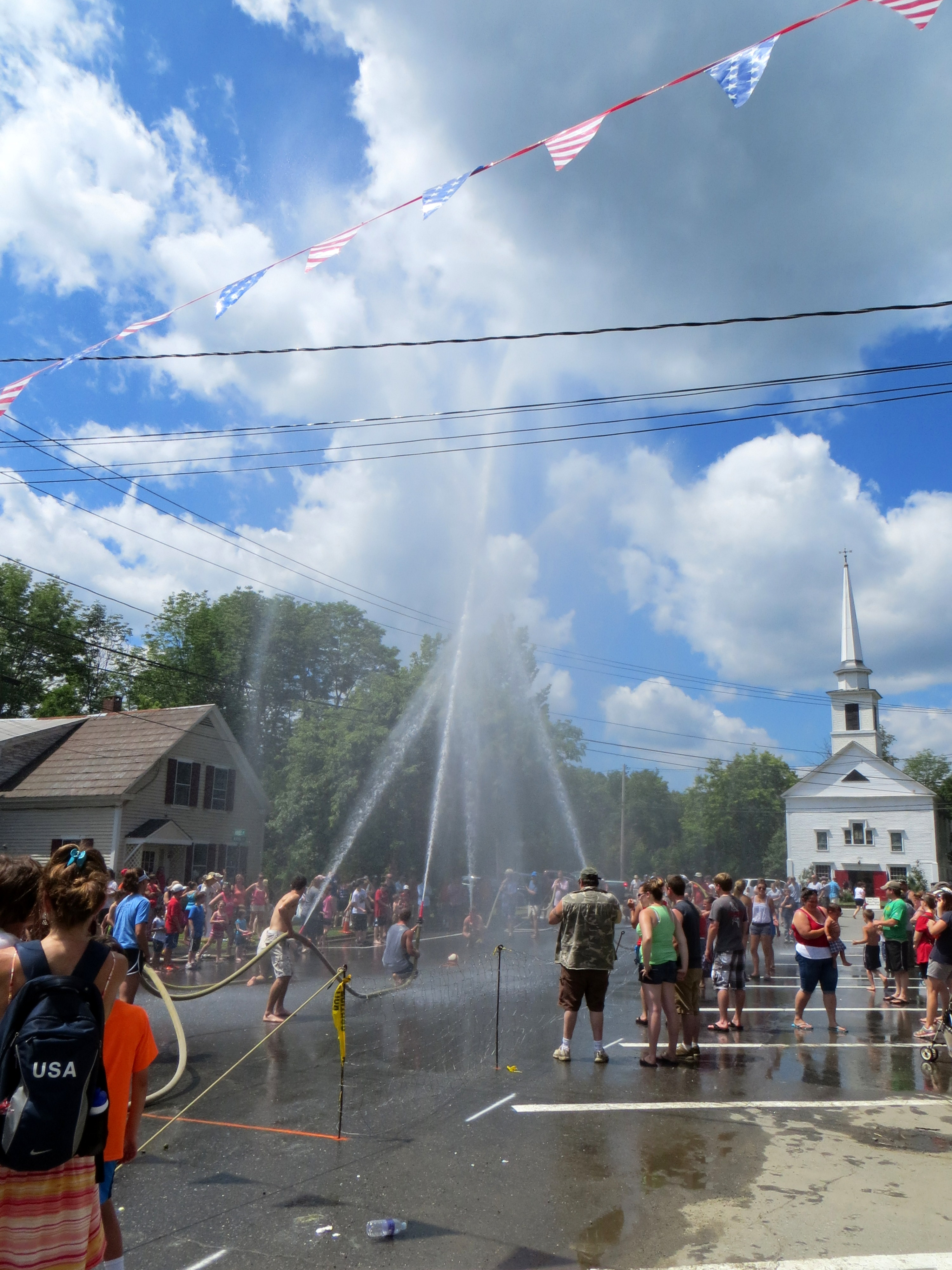 Start of a game of water polo on Main St, Saxtons River, after the 4th of July parade in 2013. The game is played by volunteer firefighters with fire hoses, trying to spray the ball down the street to a goal. Looking west at the Saxtons River Historical Society (a former Congregational church).